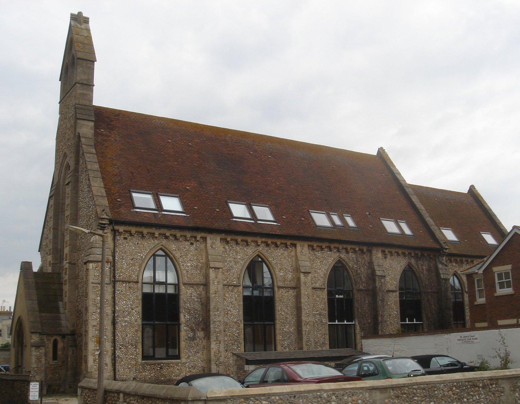 The former St Peter's Roman Catholic Church, Ship Street, Shoreham-by-Sea, Adur District, West Sussex, England. Built in 1875 and closed in 1982 when it was replaced by the new, smaller St Peter's Church nearby. Converted into a nursing home and then flats. Listed at Grade II by English Heritage (IoE Code 297316)